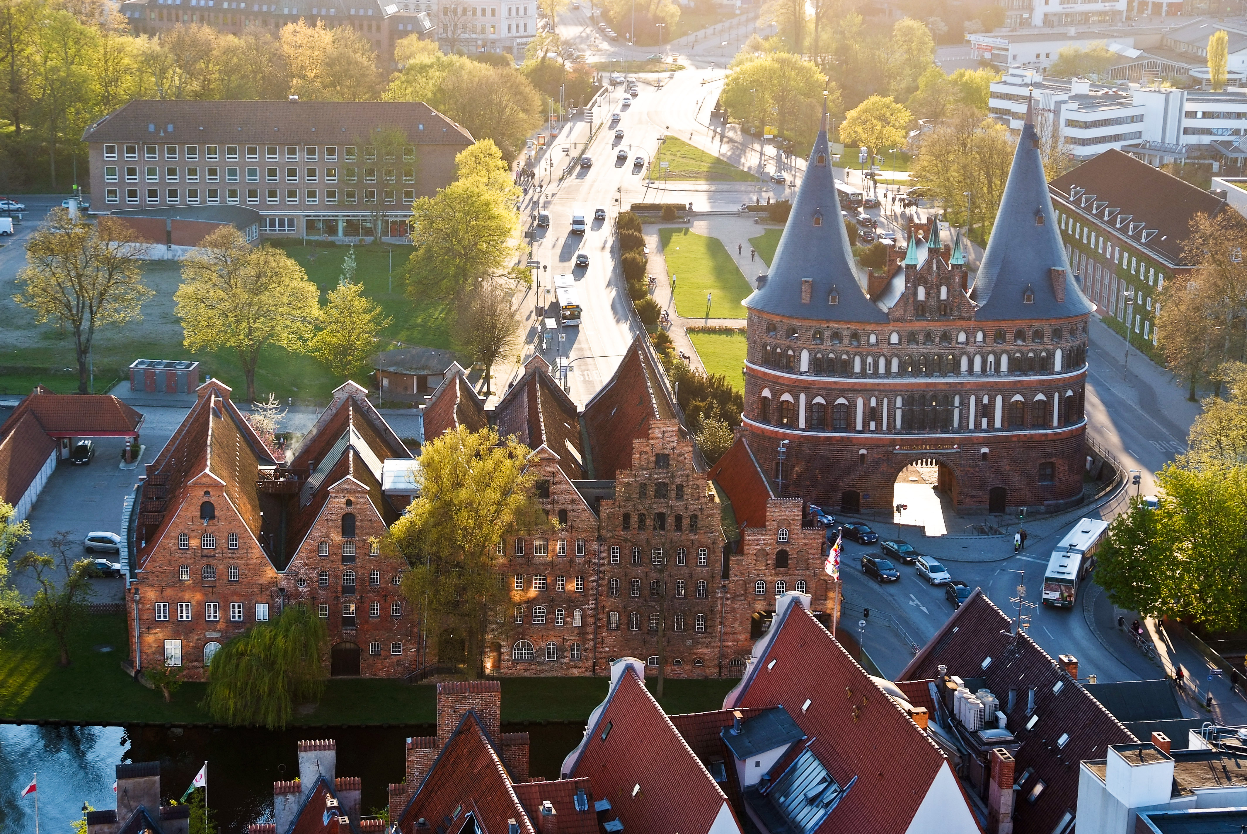 View from the tower of St. Petri over Lübeck in the evening sun. Holstentor in the right.